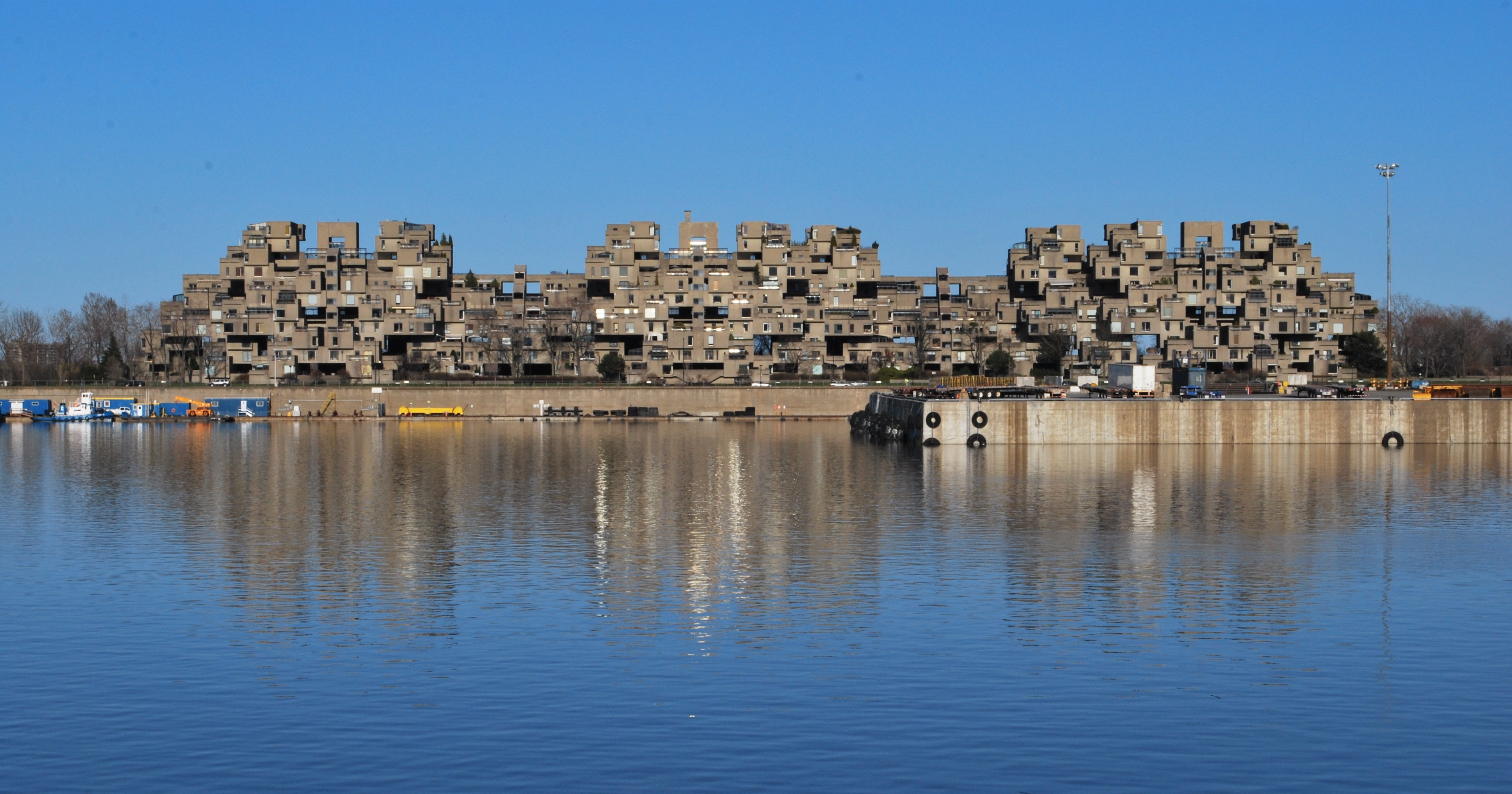 Habitat 67 was designed by Israeli–Canadian architect Moshe Safdie for his master's thesis project. It was conceived as part of the Expo 67 fair held in 1967.